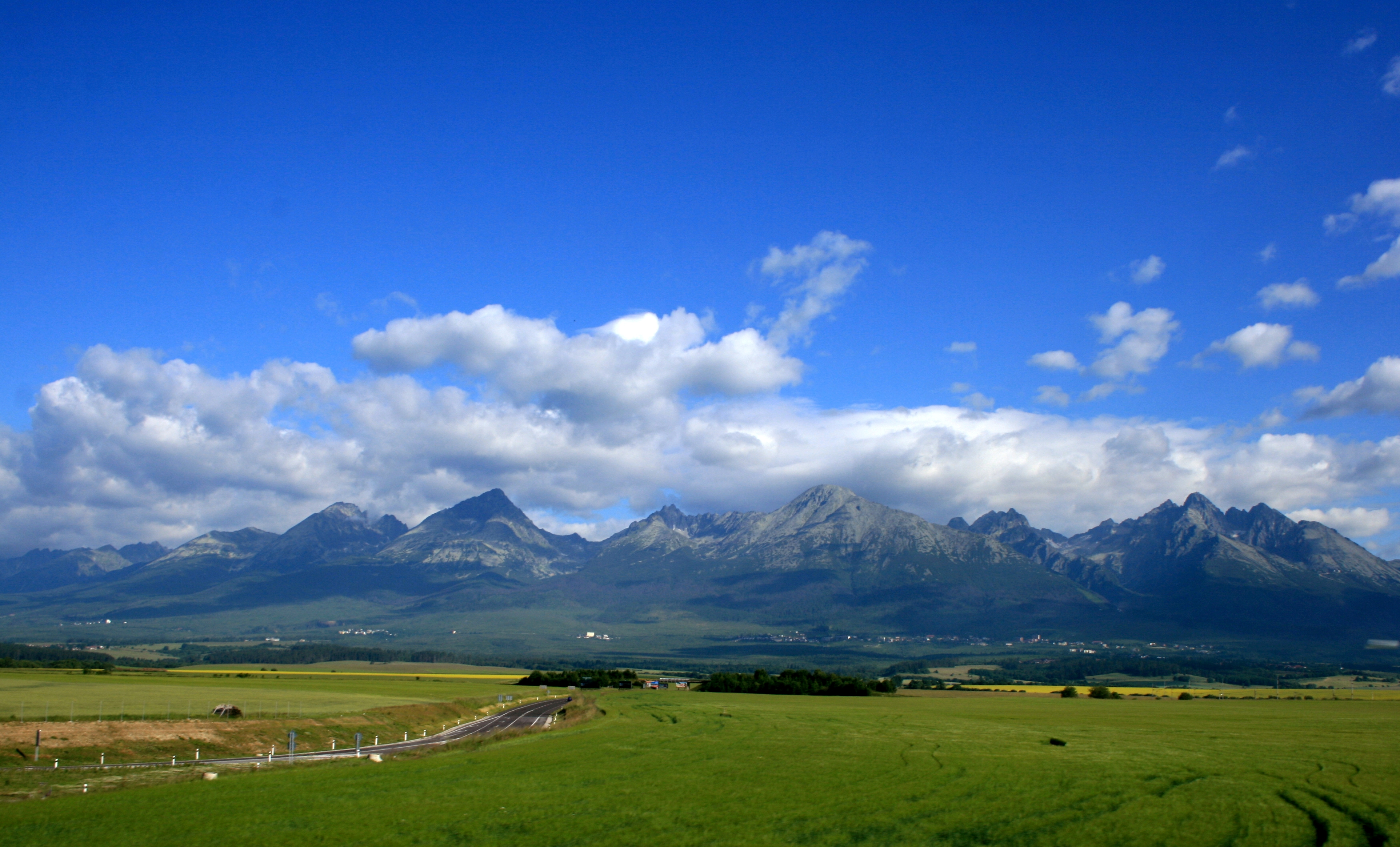 View of the High Tatra Mountains from Poprad.